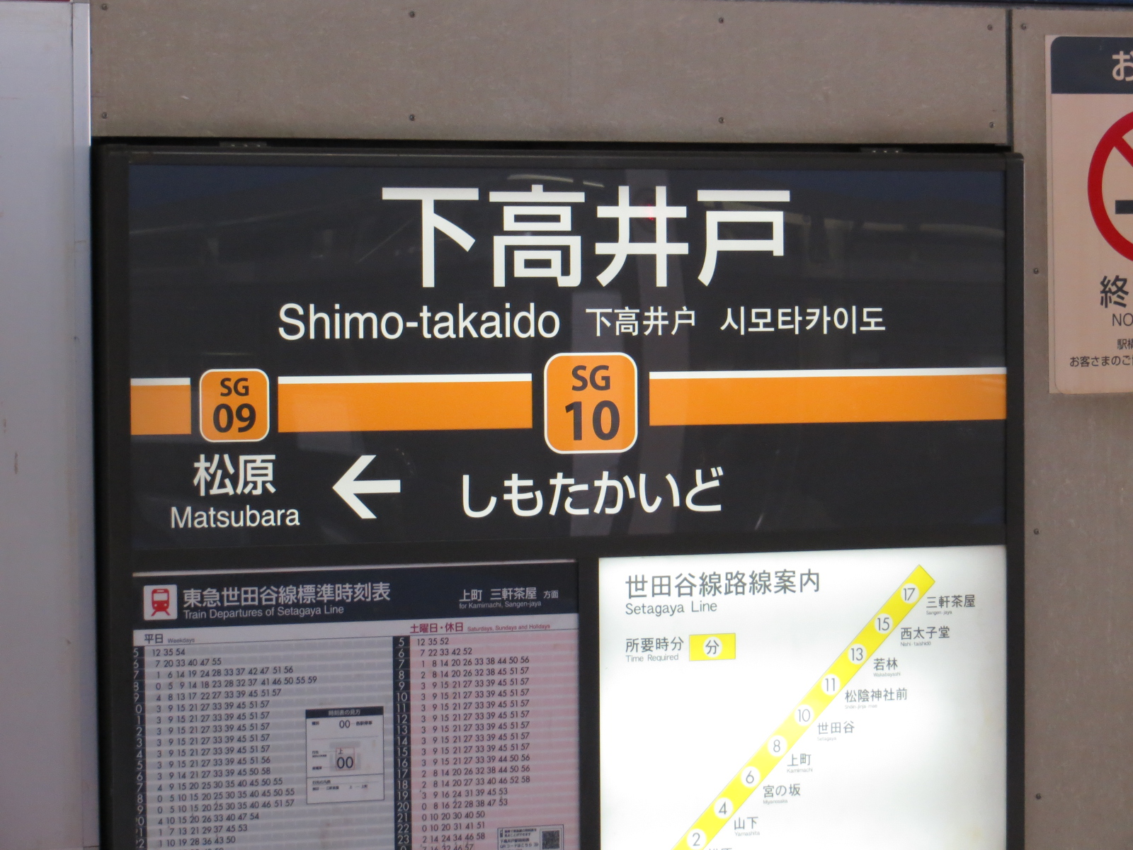 Station Sign from Shimo-takaido Station (SG10) (Tōkyū Setagaya Line).